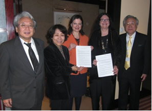 Tetsuo Tamura, Chairperson of Japanese National Commission for UNESCO, and Tomoko Nakanishi, Member of Japanese National Commission for UNESCO, met Gretchen Kalonji, Assistant Director-General for Natural Sciences of the United Nations Educational, Scientific and Cultural Organization, and Pilar Alvarez-Laso, Assistant Director-General for Social and Human Sciences of the United Nations Educational, Scientific and Cultural Organization, in Paris Commune, Paris Department, Île-de-France Region on November 2, 2011.